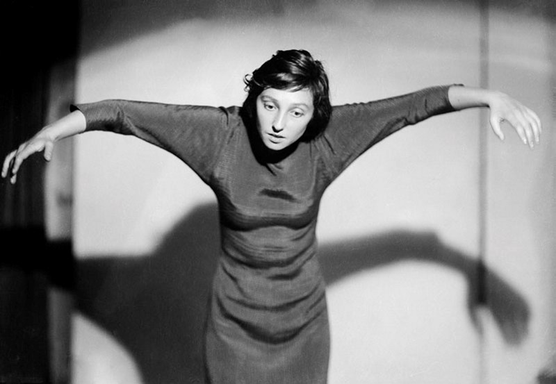 Portrait of Swedish choreographer and dancer Birgit Åkesson